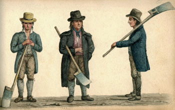 Watercolor Three farm labourers waiting to be hired for work, Samson Towgood Roch (1757-1847) From the collection of National Museum of Northern Ireland, catalogue number HOYFM.66.2009.52. Workers carry one-sided facks (feac is Irish for 'spade') which was common in the south-east of Ireland. Thy might be seasonal workers from the south-west of Ireland, who were known as spailpíní "spalpeens". Museum description postulates the one-sided flack to be a type of a loy, although the thickened heel typical for a loy is absent at the painting.